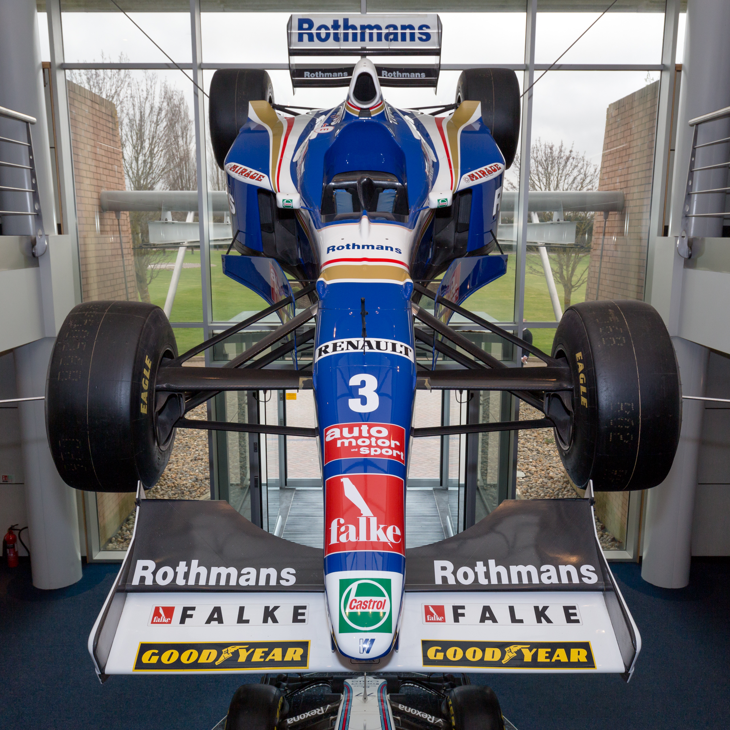 Williams Conference Centre (Grove): Williams FW19 of Jacques Villeneuve, displayed on the entrance of the Conference Centre.